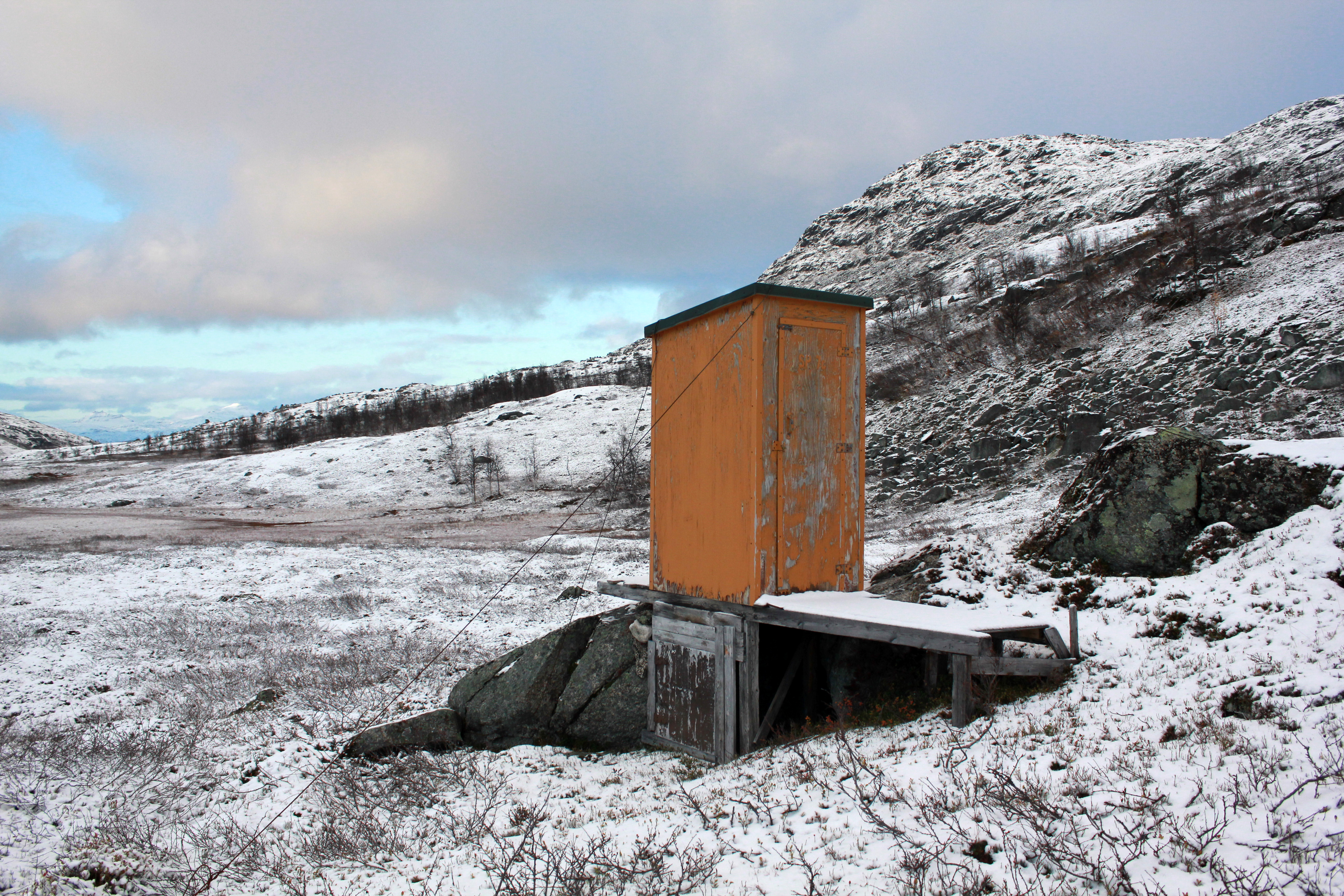 Outhouse in Narvik, Norway